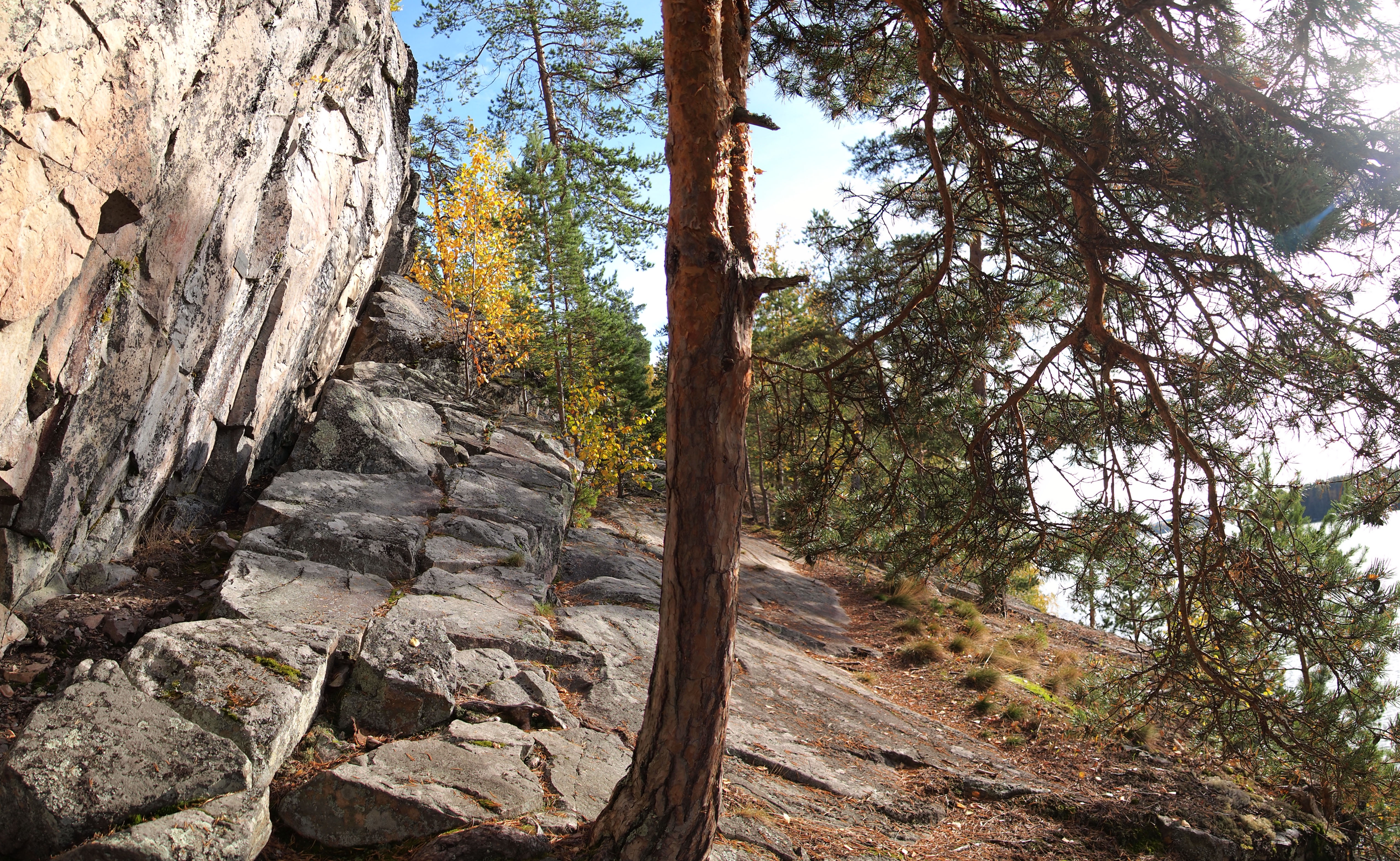 Rock Saraakallio, on which are situated some rock paintings, Laukaa.